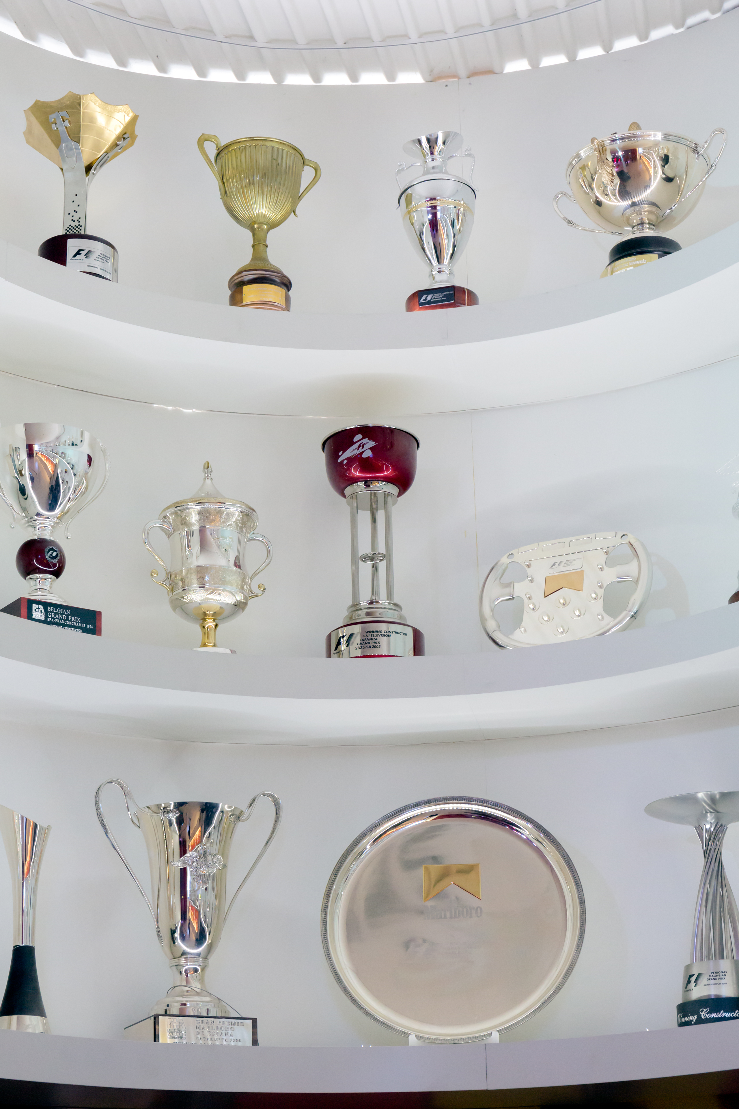 Formula One trophies of Scuderia Ferrari.